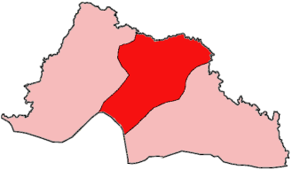 Map of Grand Gedeh County, Liberia showing Tchien District; created with the GIMP. Made by User:Acntx.